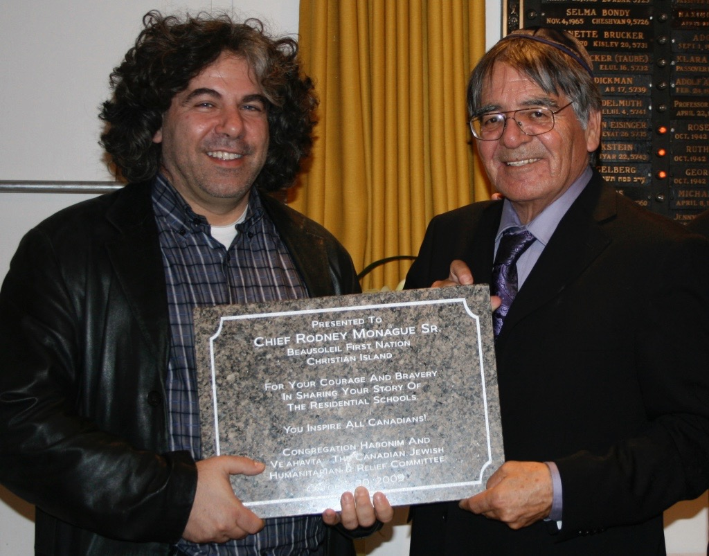 Presenting Plaque to Chief Rodney Monague, of Christian Island, Survivor of Residential Schools (2009)